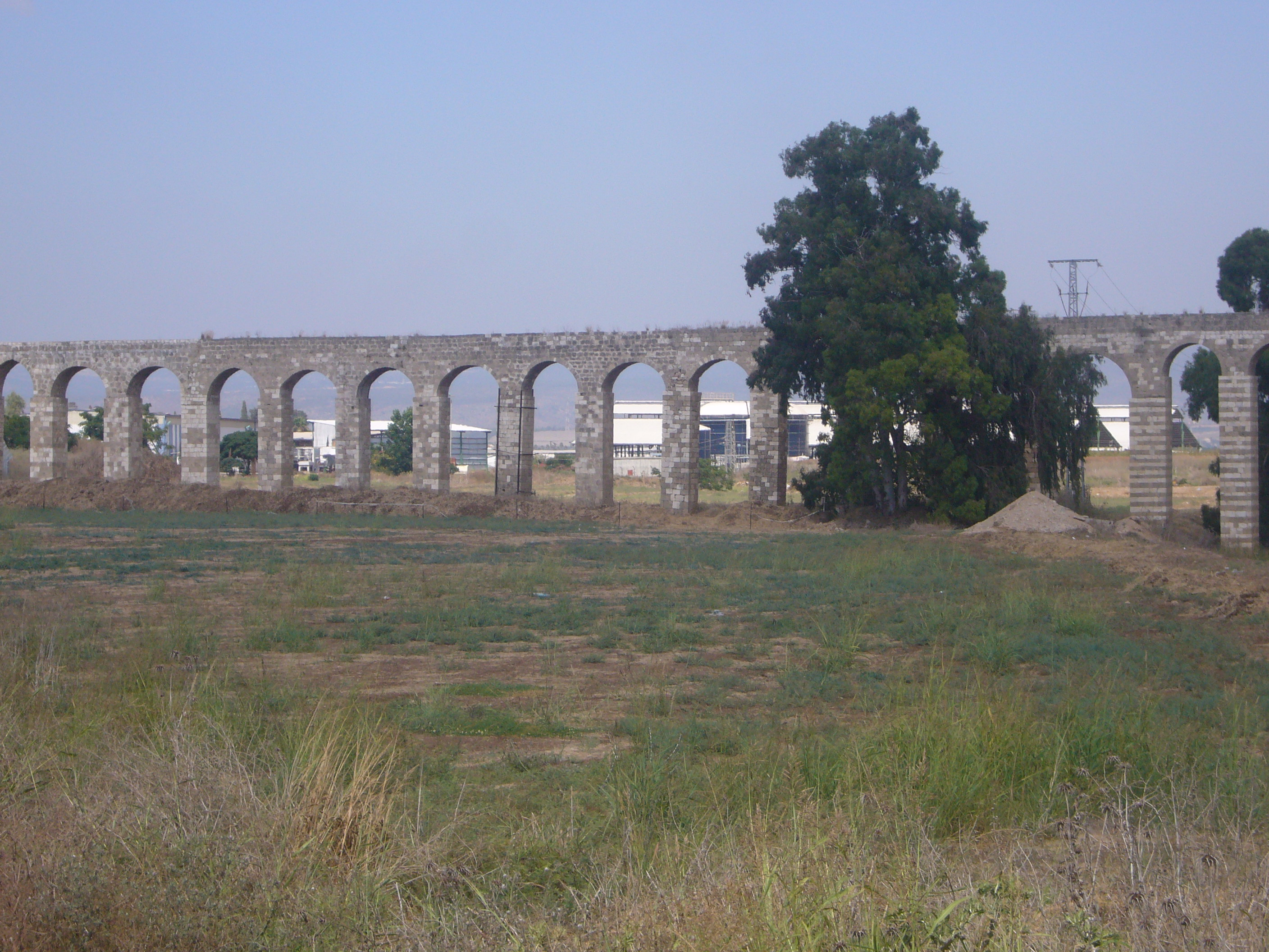 Roman Aqueduct in North of Israel near Lohamei HaGeta'ot